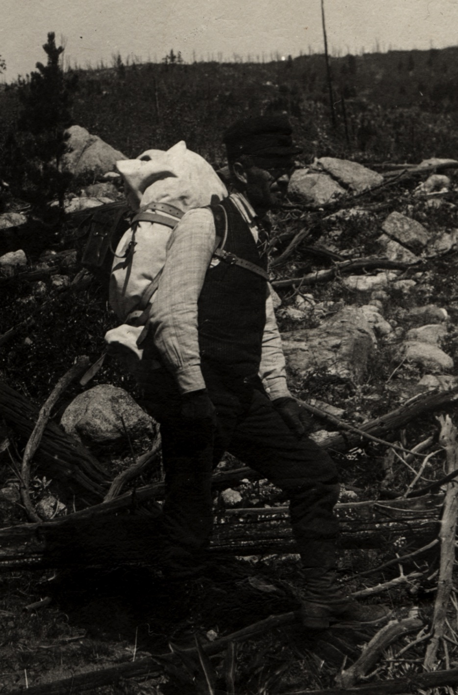 Junius Henderson in 1904 at Arapaho Glacier